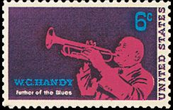 US stamp honoring WC Handy